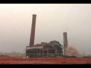 The smokestack implosion of the remaining of Plant 1, former Cannon Mills main plant in Kannapolis, North Carolina.